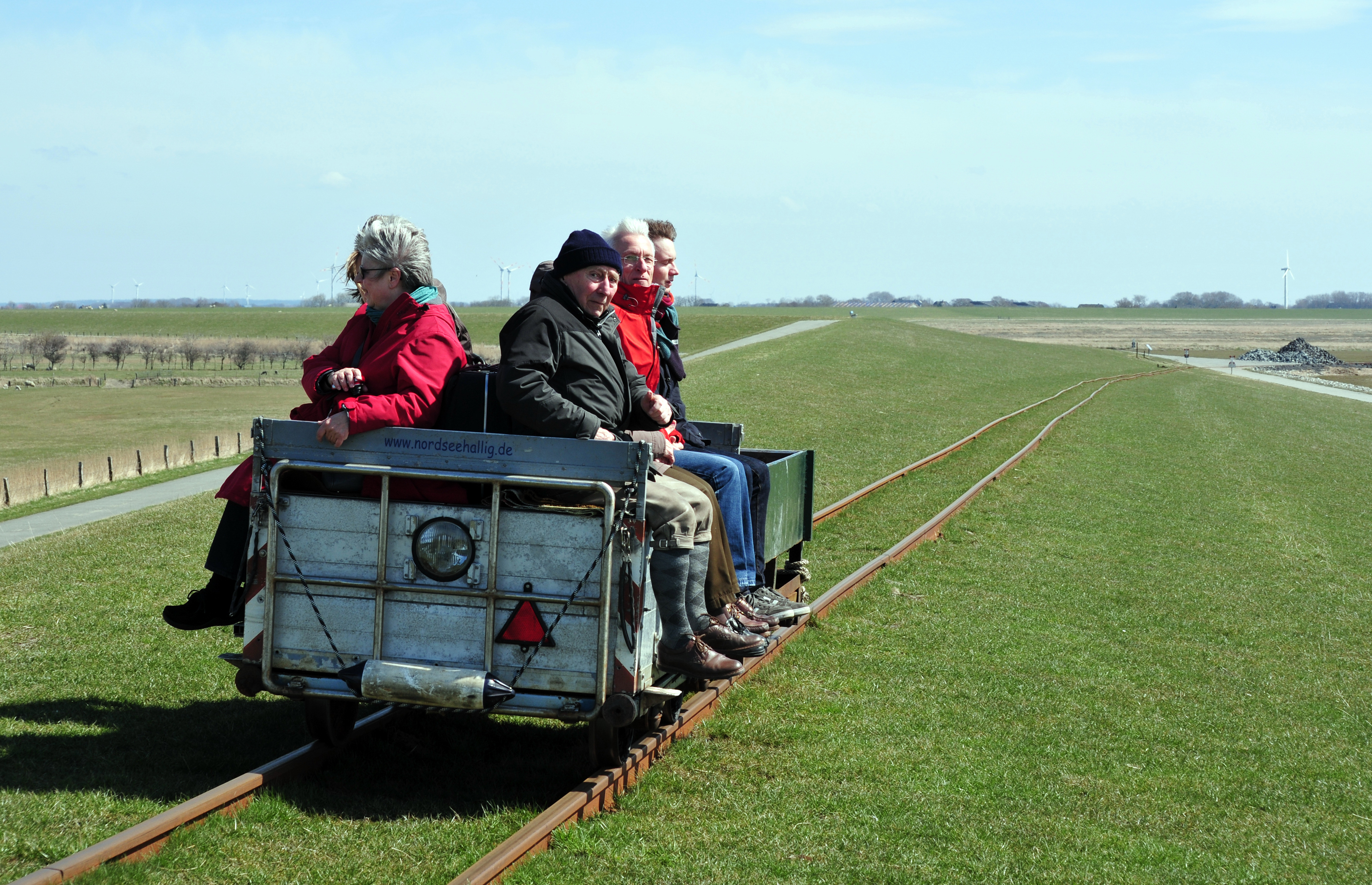 train from Dagebüll to Langeneß, Germany 2013